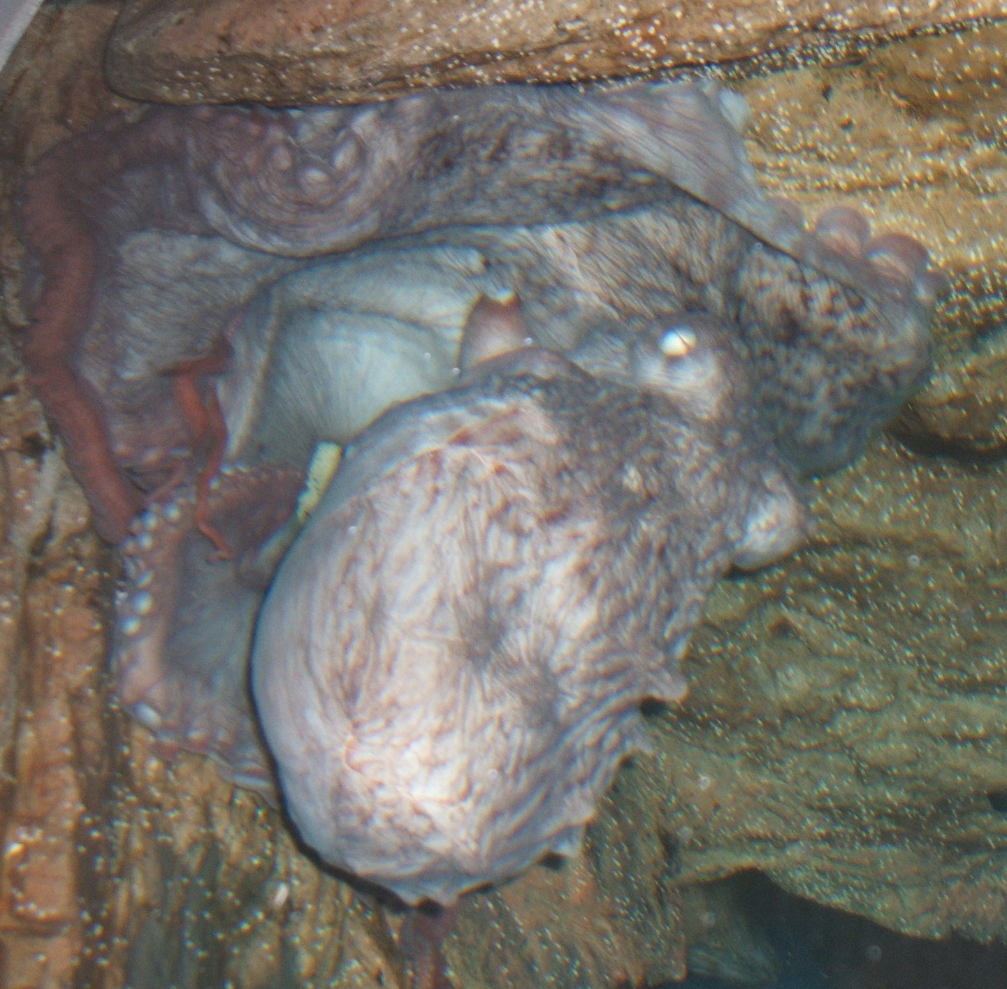 North Pacific giant octopus (Enteroctopus dofleini). Taken at the New England Aquarium (Boston, MA), December 2006. Copyright © 2006 Steven G. Johnson and donated to Wikipedia under GFDL and CC-by-SA.